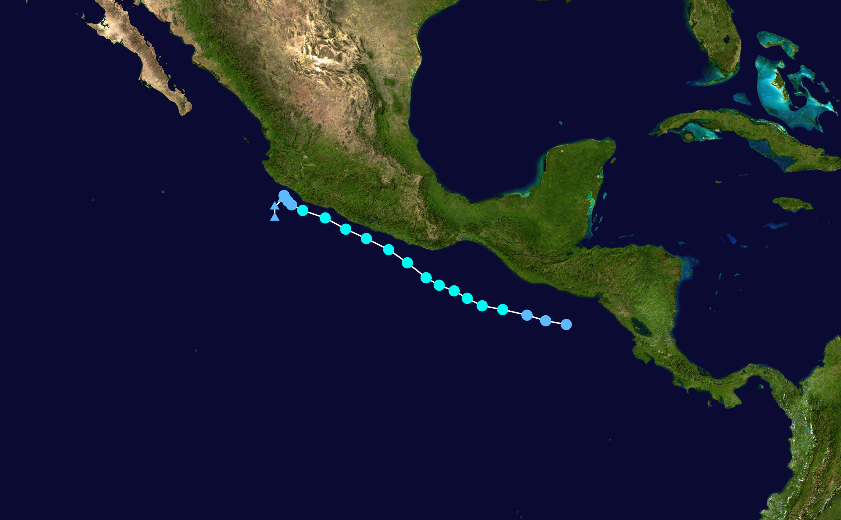 Track map of Tropical Storm Odile of the 2008 Pacific hurricane season. The points show the location of the storm at 6-hour intervals. The colour represents the storm's maximum sustained wind speeds as classified in the Saffir–Simpson scale (see below), and the shape of the data points represent the nature of the storm, according to the legend below. Saffir–Simpson scale Tropical depression≤38 mph≤62 km/h Category 3111–129 mph178–208 km/h Tropical storm39–73 mph63–118 km/h Category 4130–156 mph209–251 km/h Category 174–95 mph119–153 km/h Category 5≥157 mph≥252 km/h Category 296–110 mph154–177 km/h Unknown Storm type Tropical cyclone Subtropical cyclone Extratropical cyclone / Remnant low / Tropical disturbance / Monsoon depression